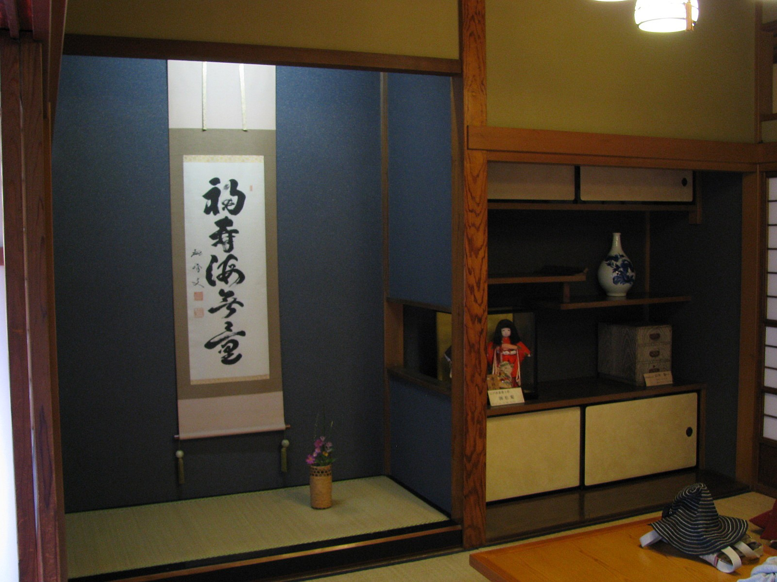 A Tokonoma, in the Yamamoto-tei, an old Japanese house. This place is Katsusika, Tokyo, Japan.